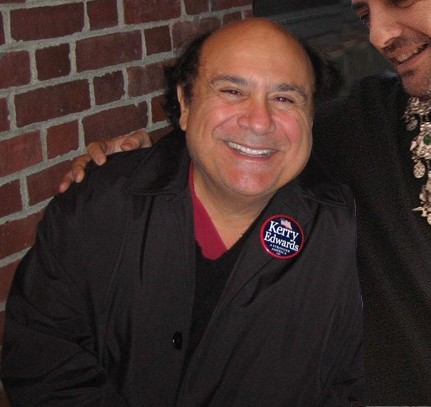 Danny DeVito (left) and Madrid comedian Juan Solo (right)